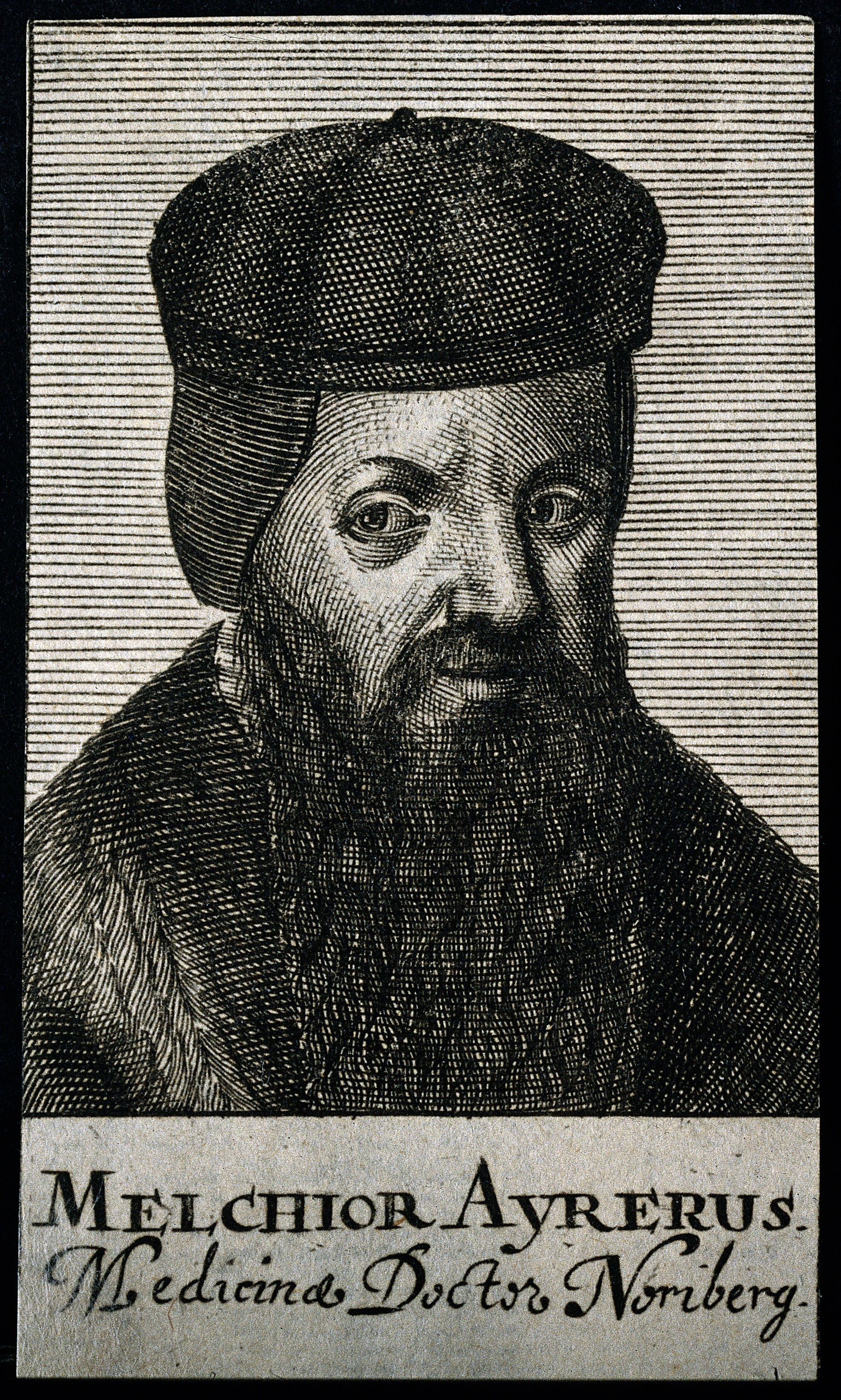 Melchior Ayrer. Line engraving, 1688. Iconographic Collections Keywords: portrait prints; engravings; ayrer, melchior, 1520-1579; Melchior Ayrer